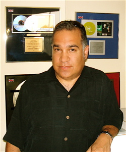 Safta jaffery portrait image